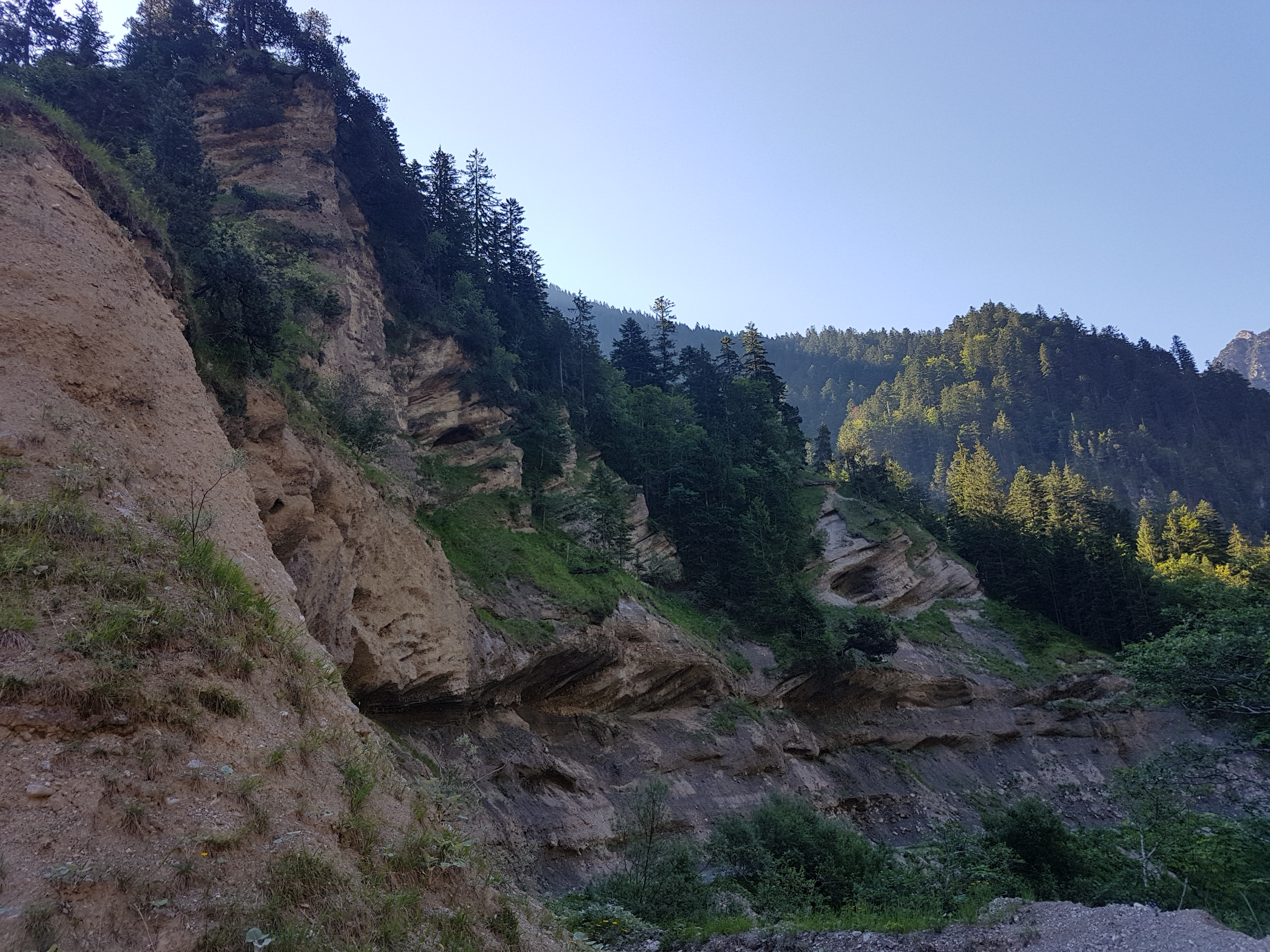 The Gamperdonaweg is a street in the muncipality of Nenzing between the main town (Nenzing) and the district Nenzinger Himmel (Gamperdona Alpe) in Vorarlberg, Austria. The street is only accessible for authorized persons and partially only single lane. There is a ban on bicycles. Next to the Gamperdonaweg runs the Mengschlucht (canyon) with the river “Meng”. Plot: Badigul.